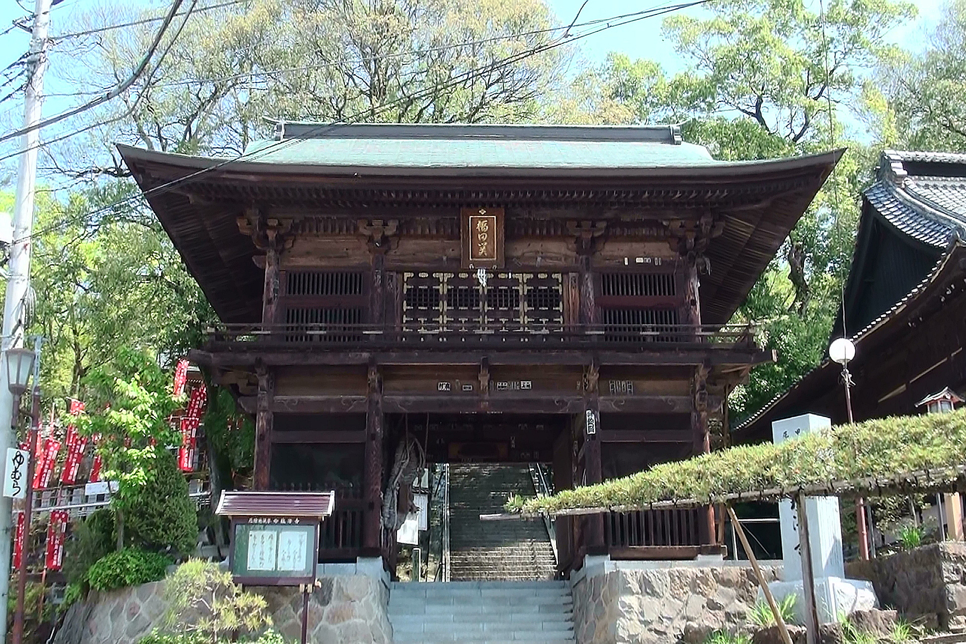 Entaku-ji temple in Kofu-city